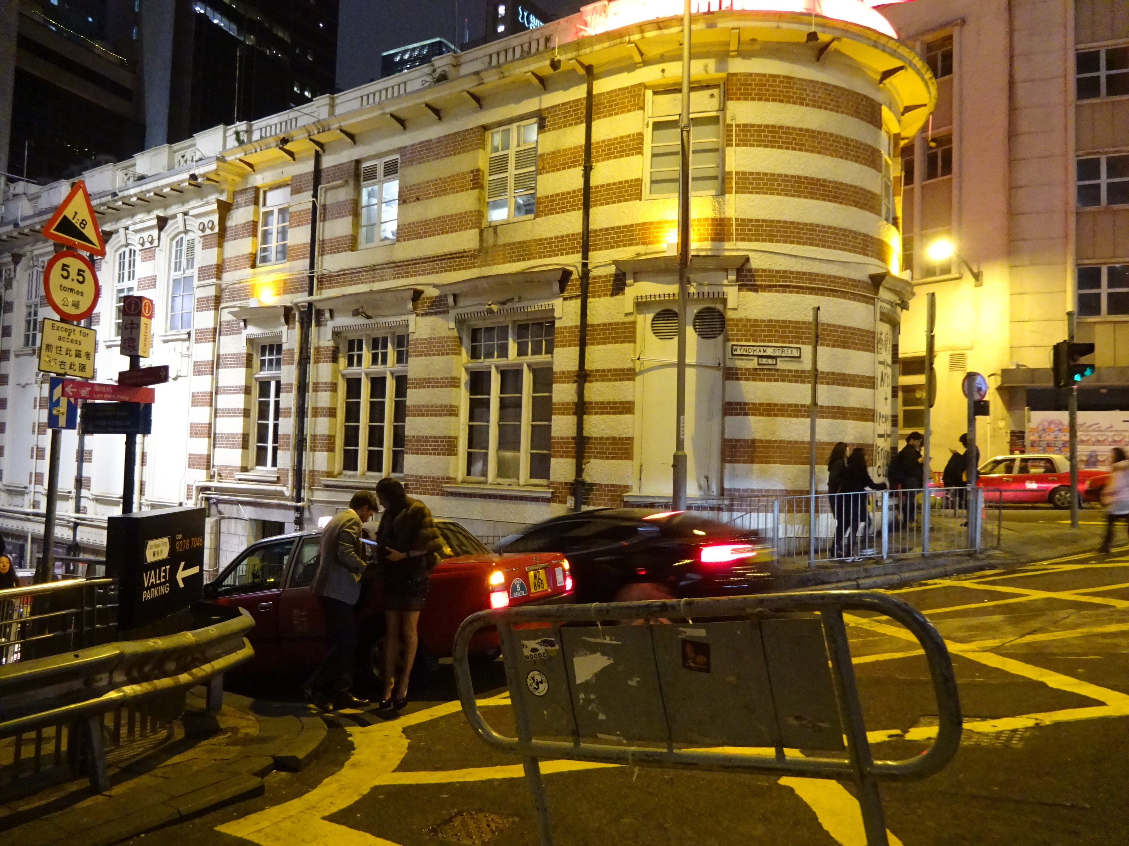 HK Central night 雲咸街 Wyndham Street 藝穗會 Fringe Club March 2016